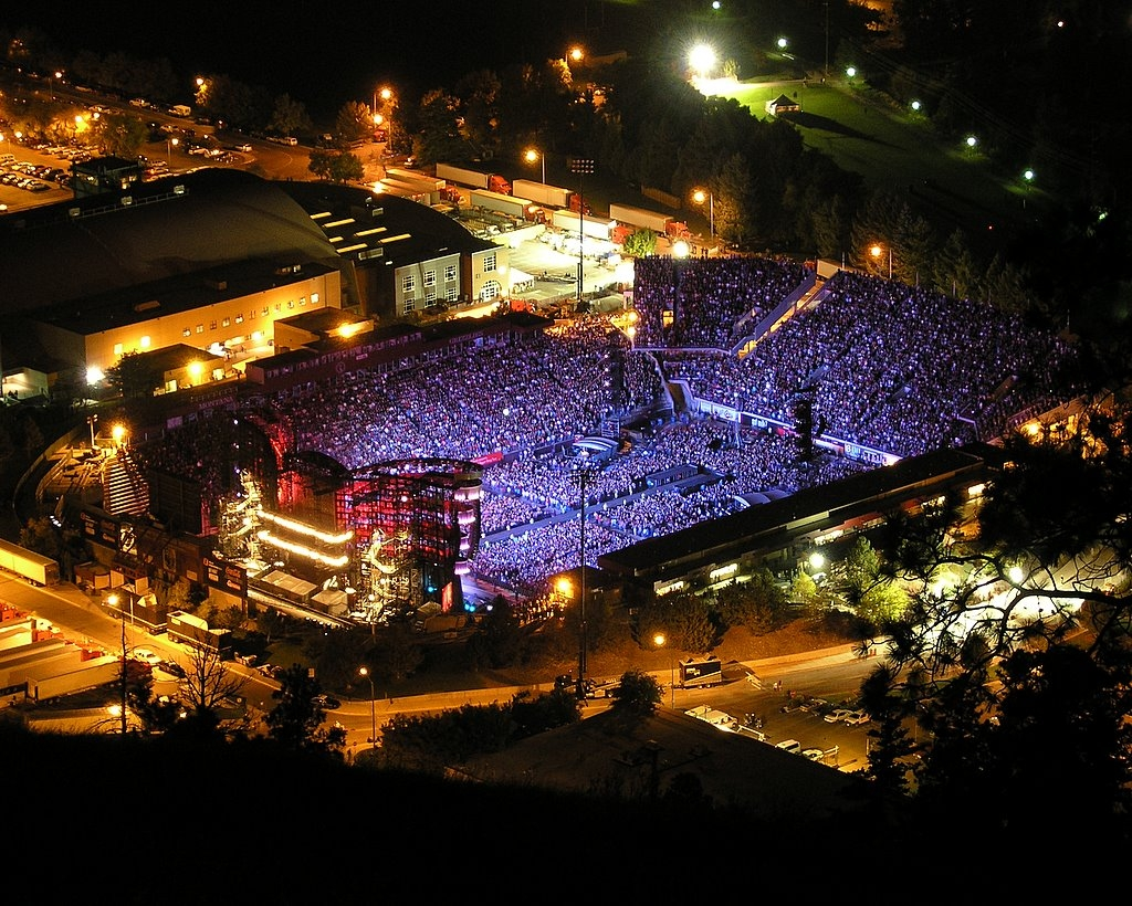 Picture of the Rolling Stones concert at Washington-Grizzly Stadium in Missoula, Montana. View of Washington-Grizzly Stadium from Mount Sentinel, taken on October 4, 2006, during The Rolling Stones concert.